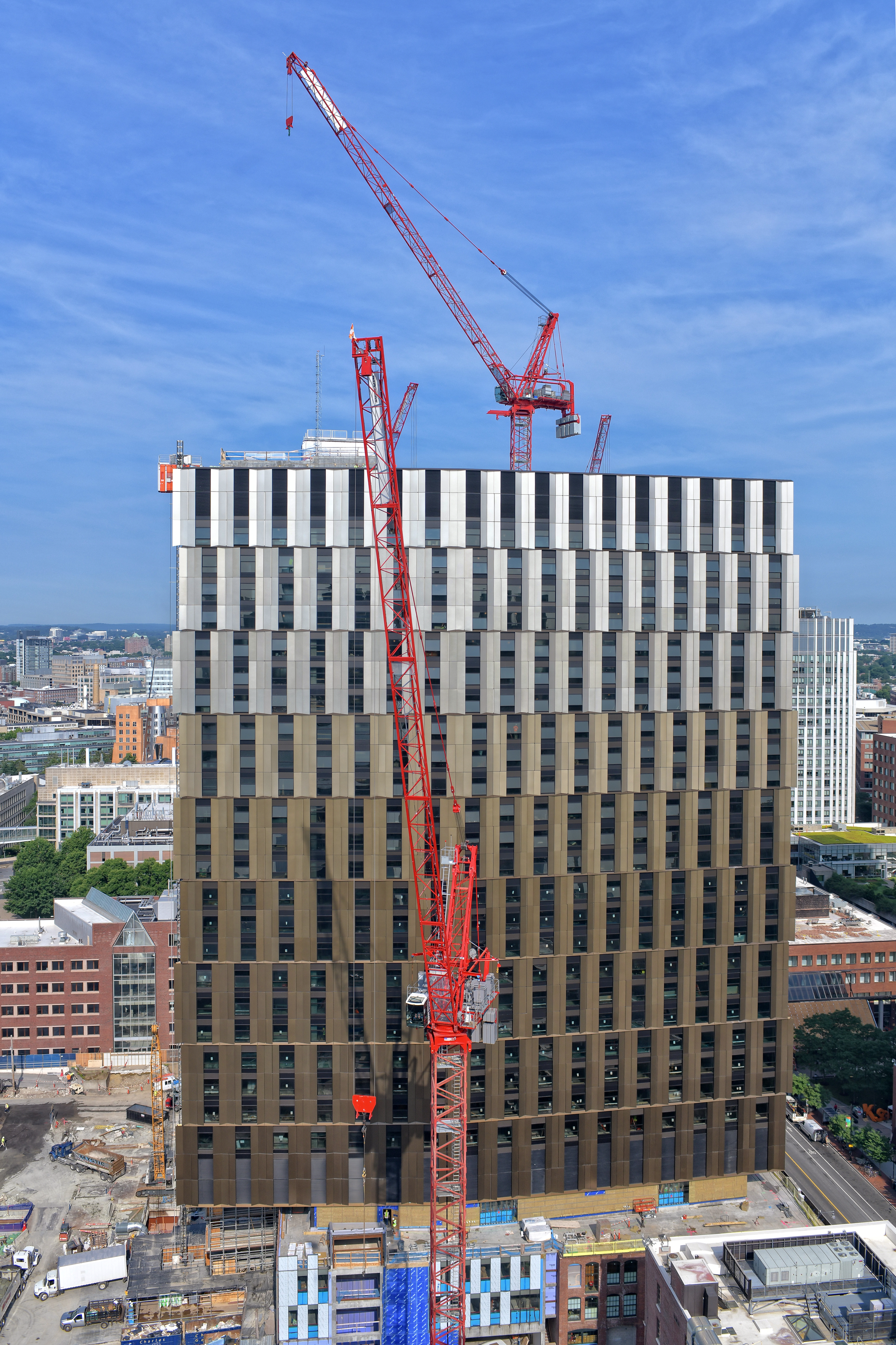 SOMA Site 4 in July 2019